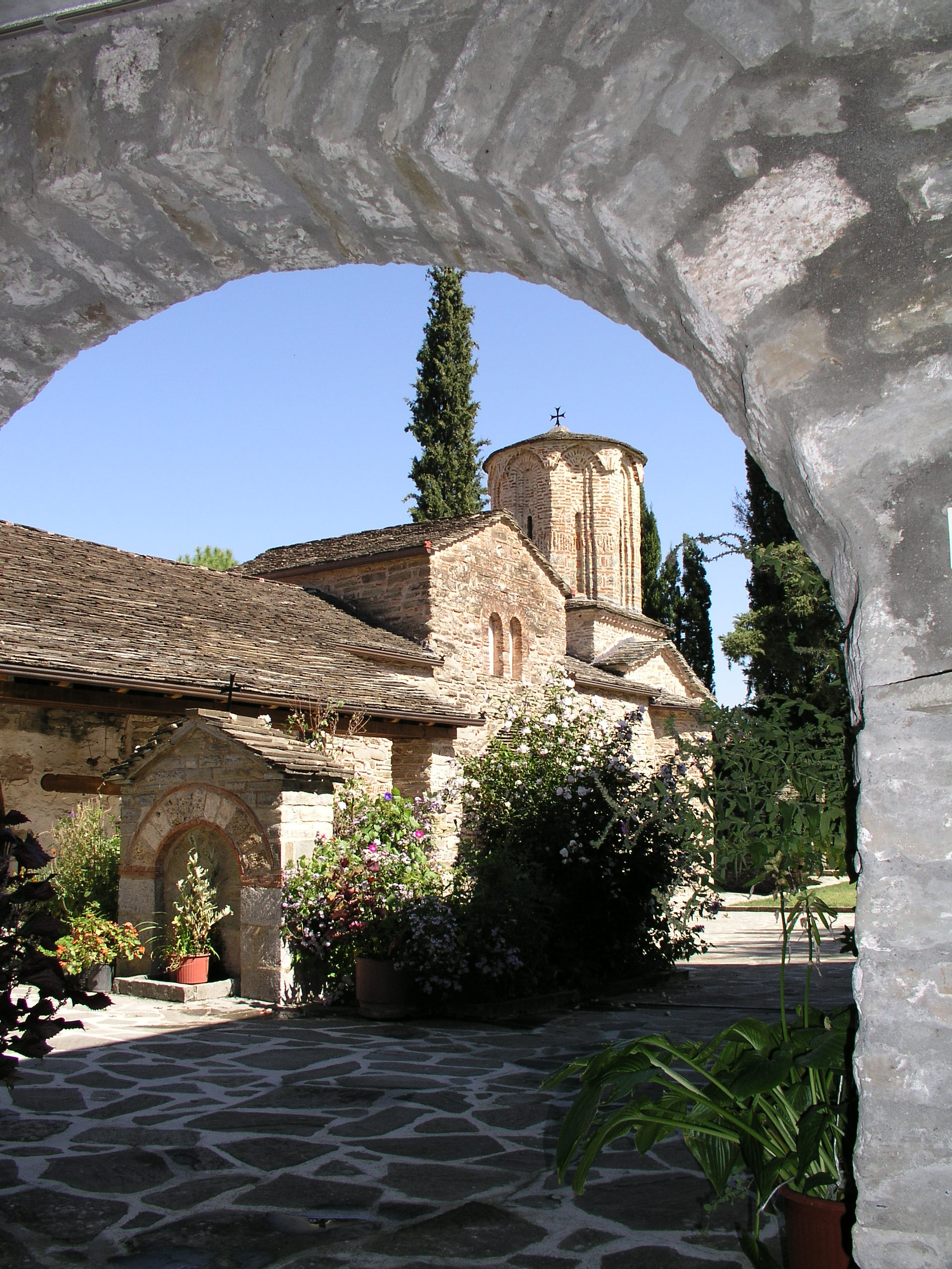 View of Molyvdoskepastos monastery